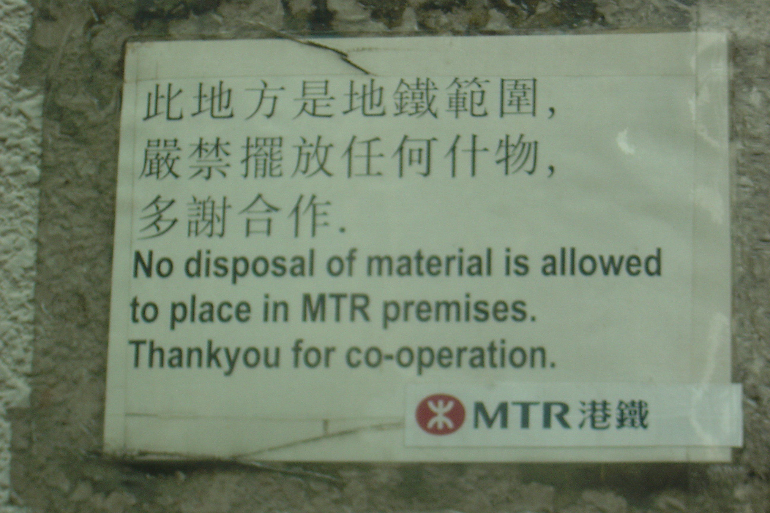 Sign with both 地鐵 (the pre-merger name of MTR) and 港鐵 (the post-merger name) after the MTR-KCR Merger